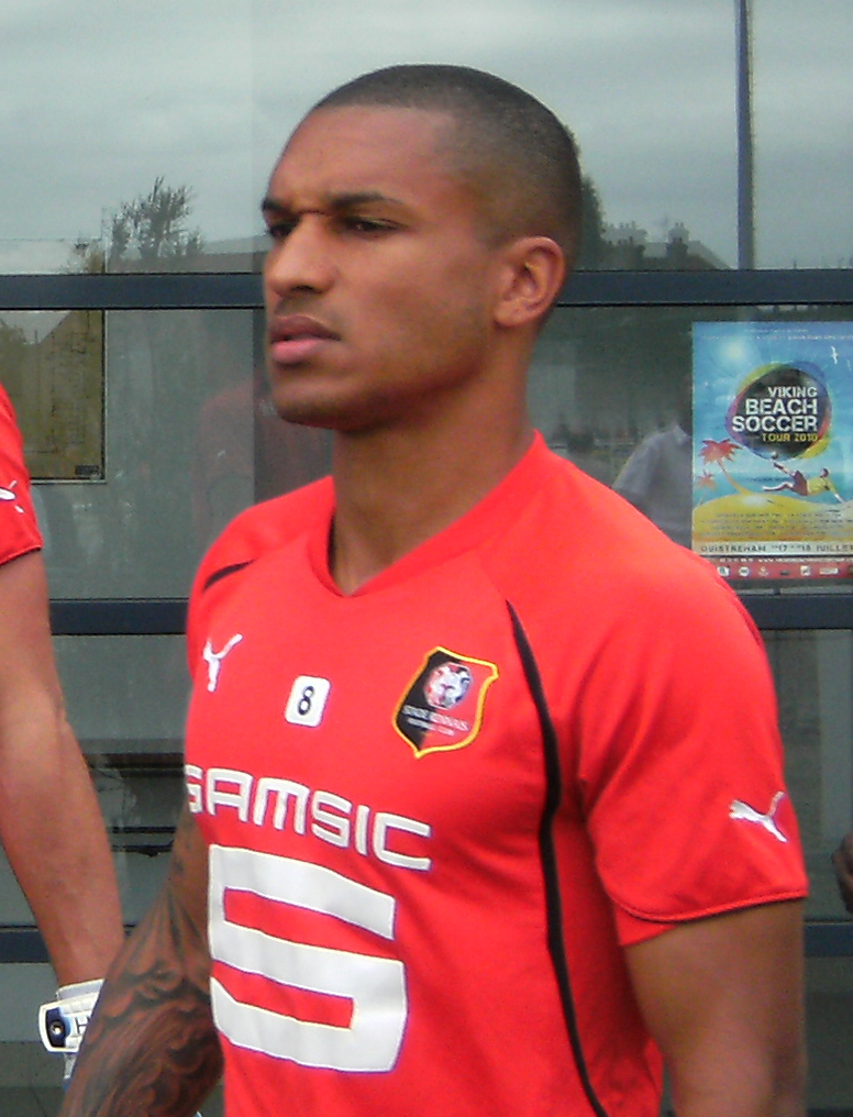 Sylvain Marveaux before a friendly game between Stade rennais FC and Stade Malherbe de Caen in Ouistreham